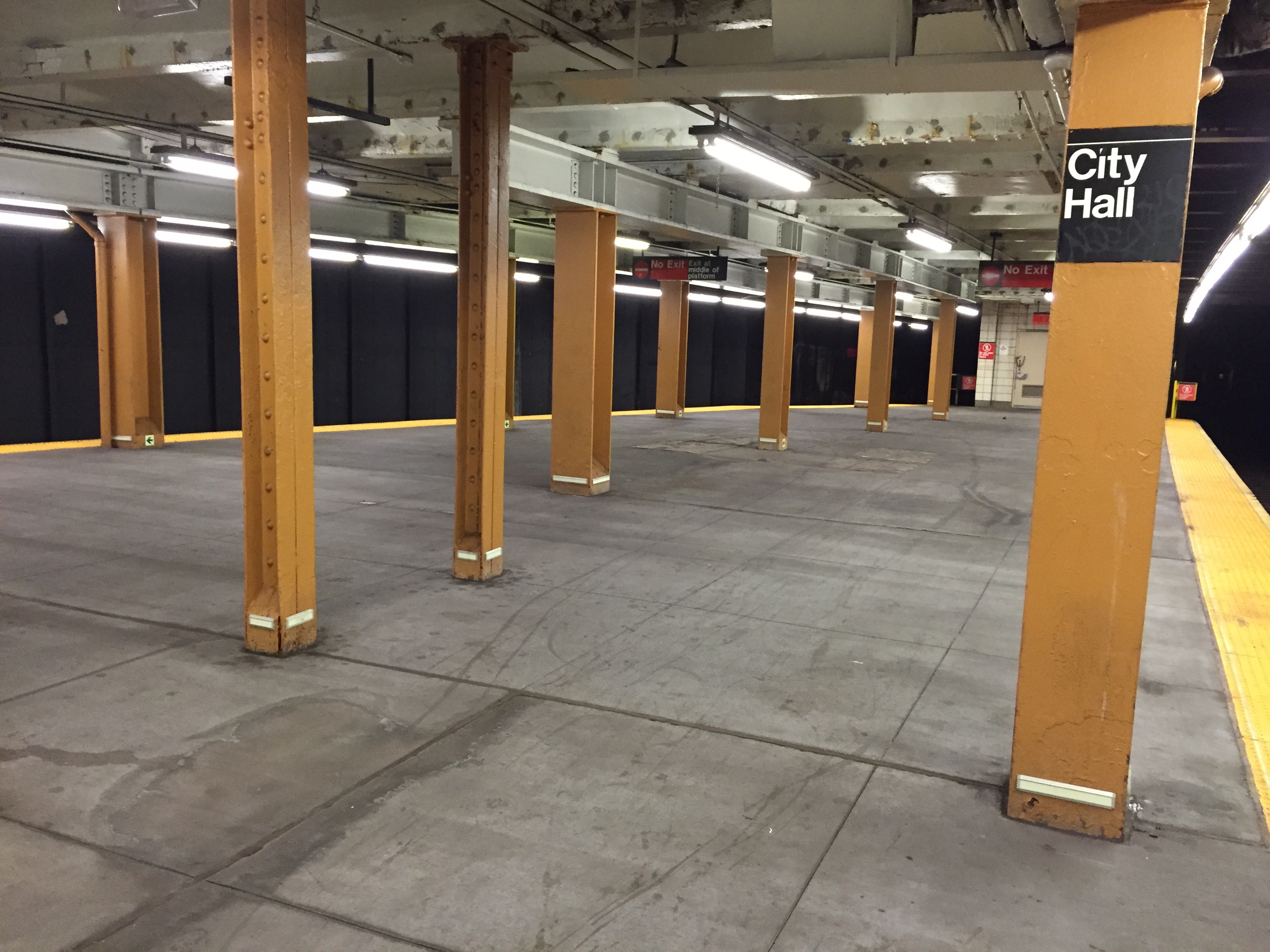 Wider portion (southern end) of the City Hall R station.